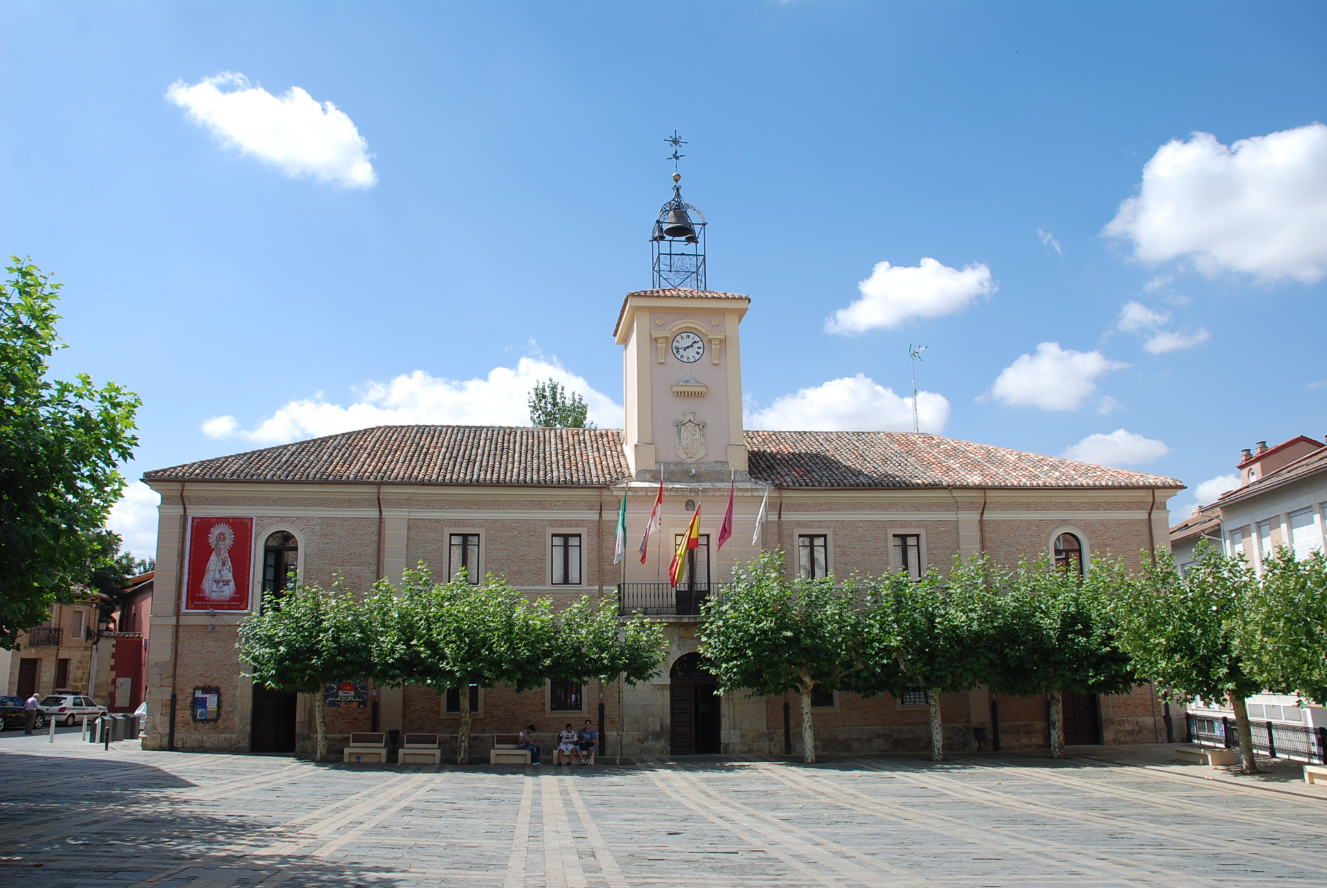 Town hall of Carrión de los Condes (Palencia, Castile and León).